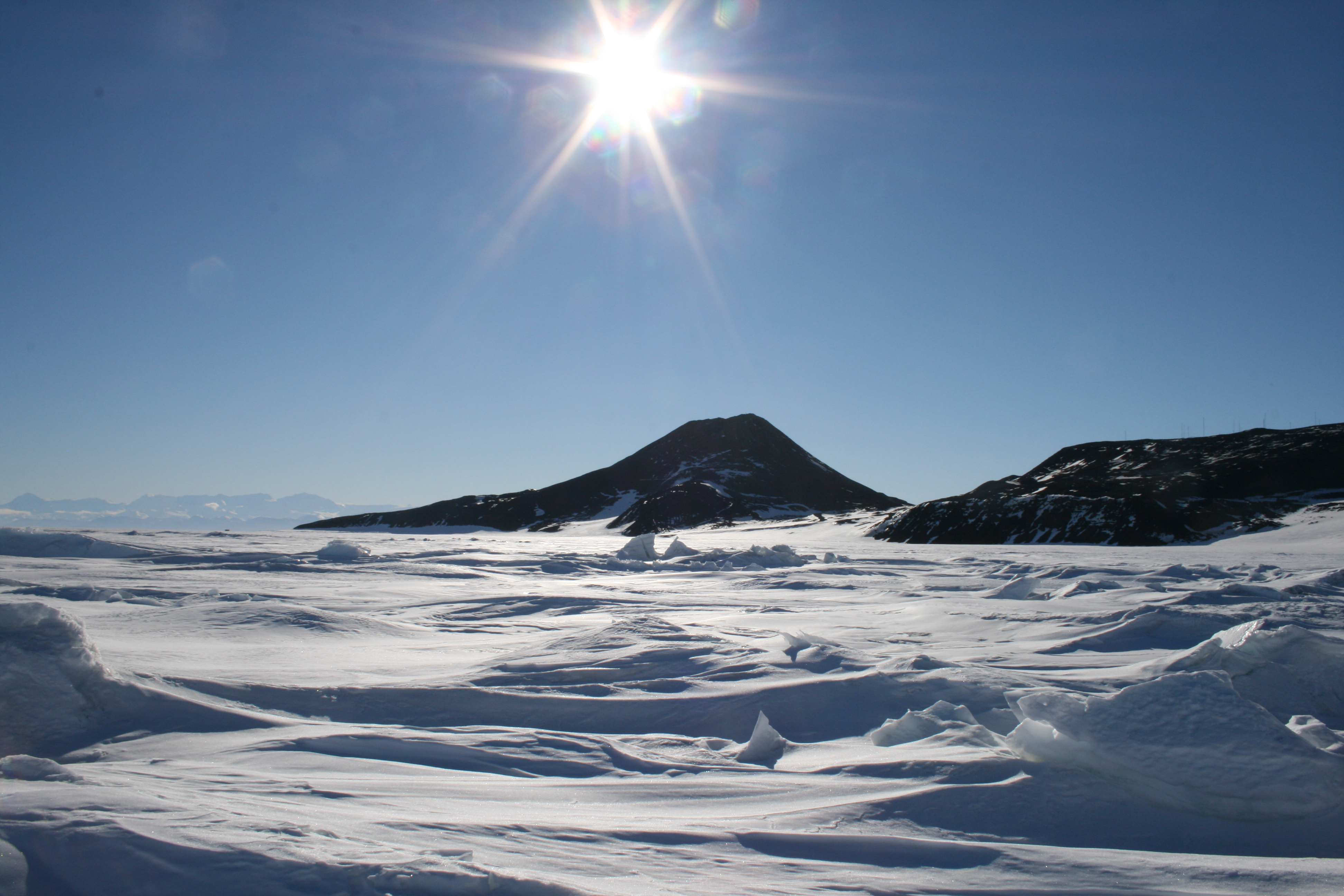 Pressure ridges on Ross Island as seen from the sea ice near New Zealand's Scott Base.